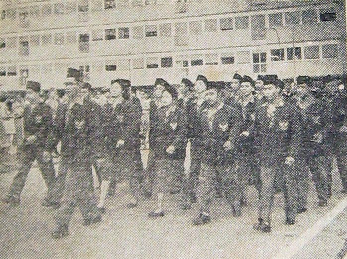 Indonesian delegation at the 1960 Olympic games; chief of mission Sriamin in front